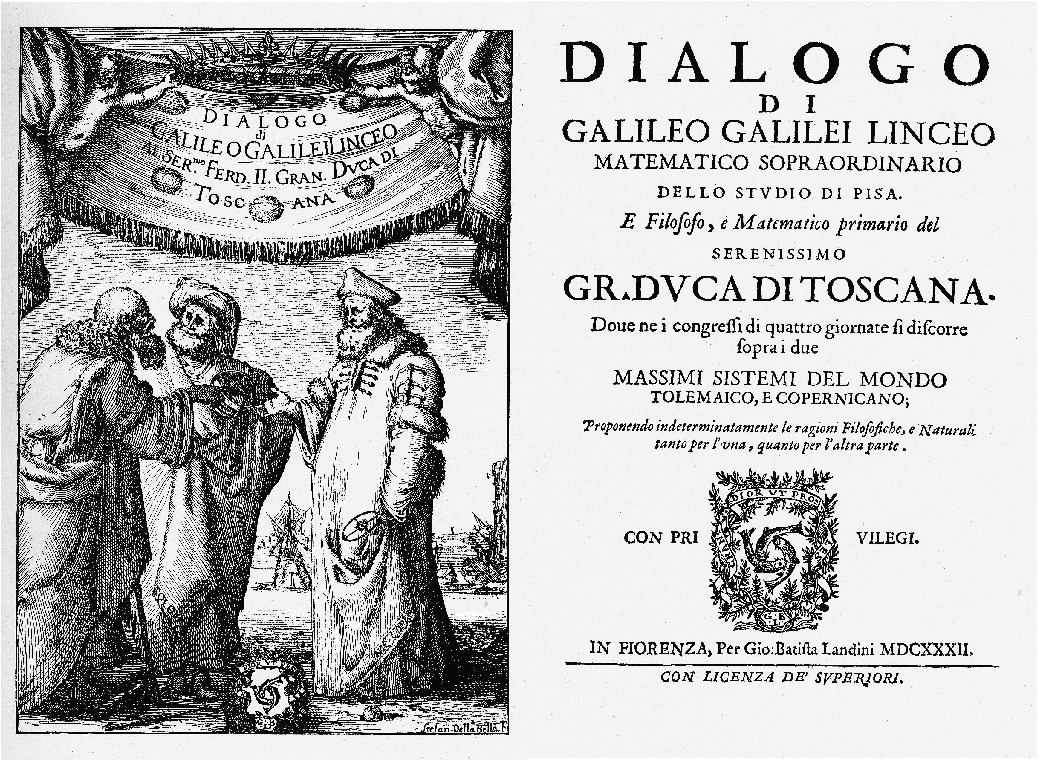 Frontispiece (by Stefan Della Bella) and title page of Galileo Galilei's Dialogue Concerning the Two Chief World Systems, published by Giovanni Battista Landini in 1632 in Florence.